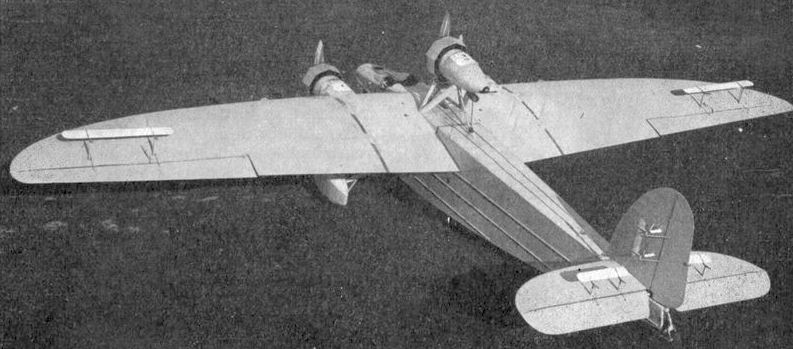 Dornier Do Y photo from L'Aerophile April 1933